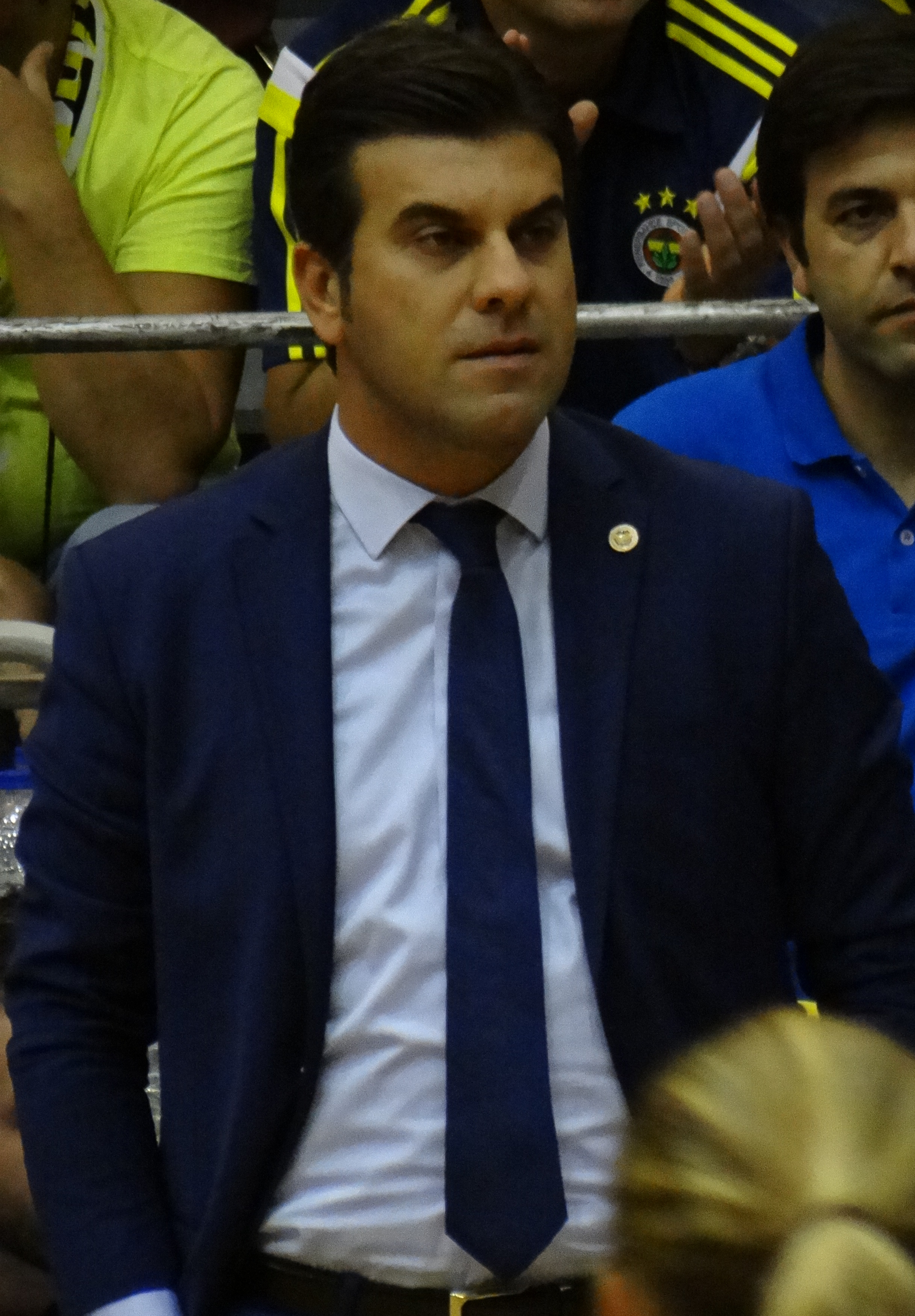 Fırat Okul Fenerbahçe Women's Basketball vs Orman Gençlik TWBL 20171007.jpg